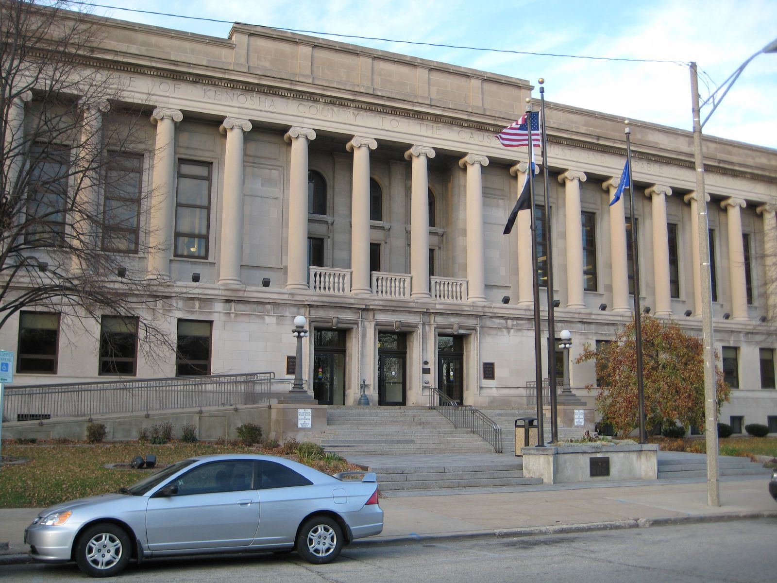 Kenosha County Court House